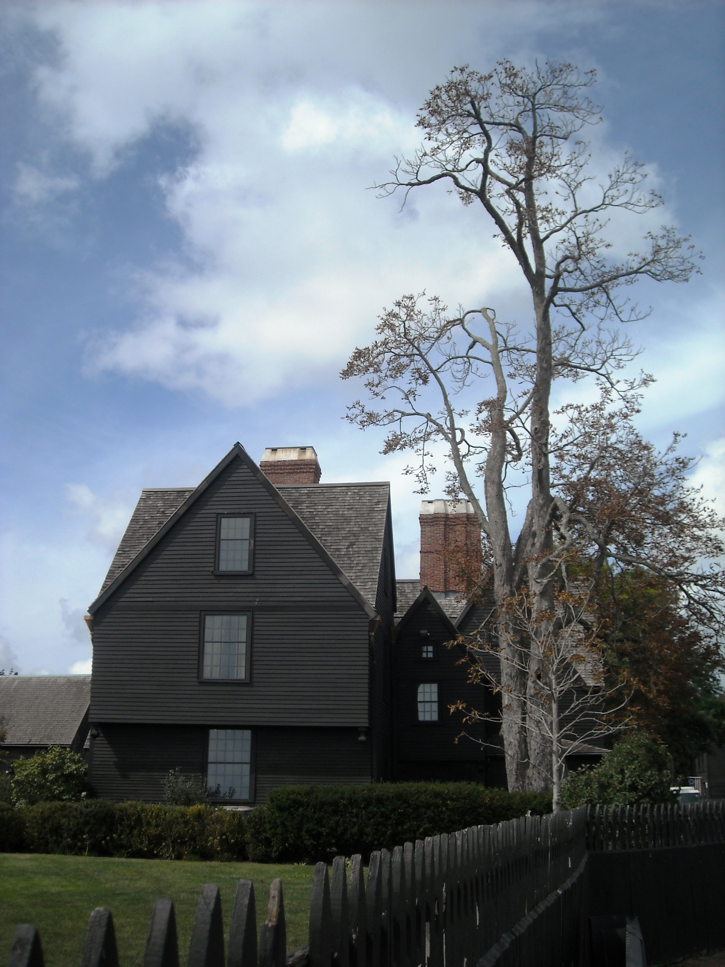 Image originally published in Queer Places: Retracing the Steps of LGBTQ people around the World Authored by Elisa Rolle